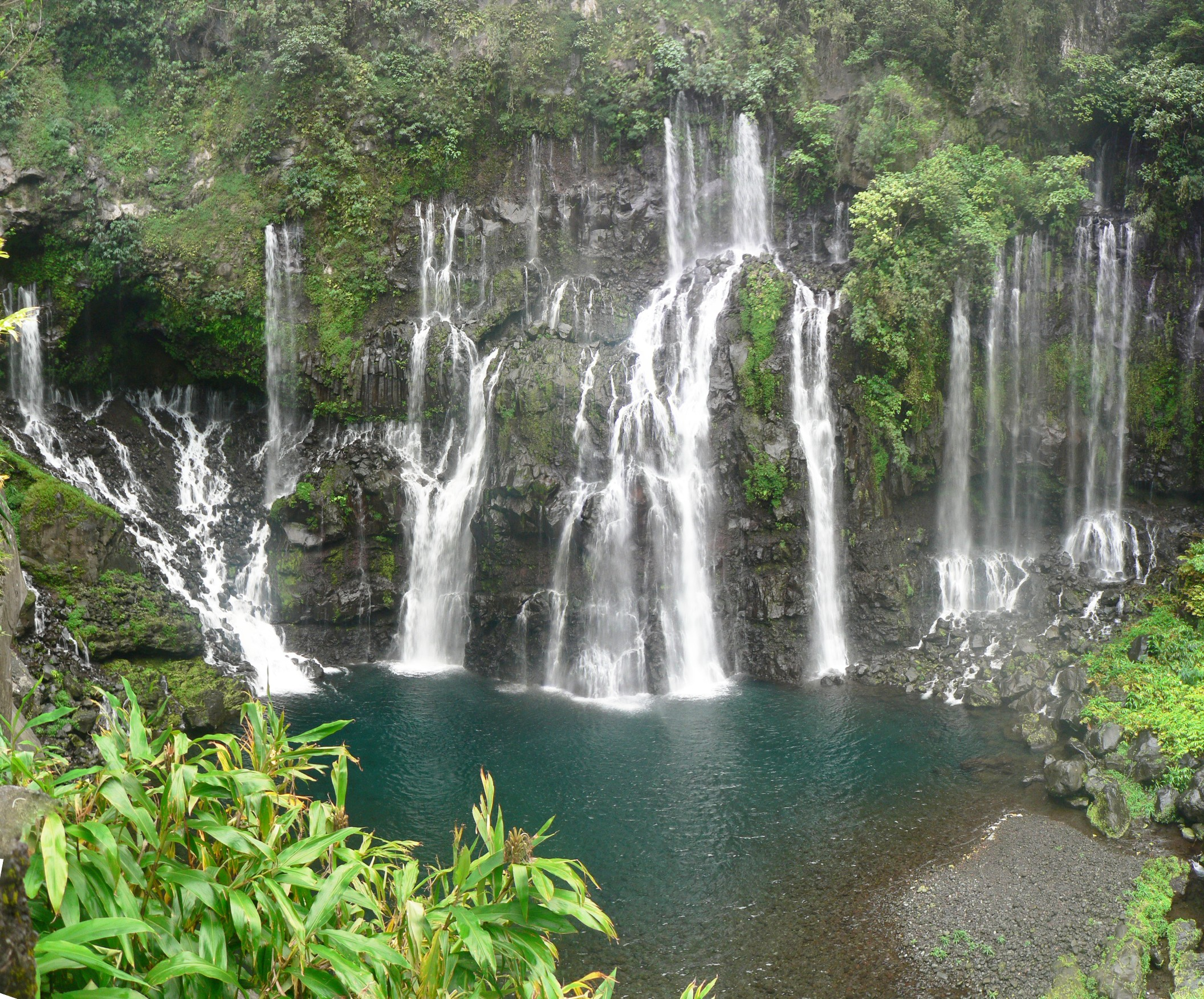 The Trou noir on the Langevin River, Reunion Island